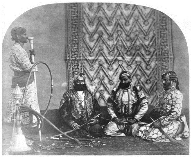 A picture of Gujjar sardars of Rajasthan during British era.